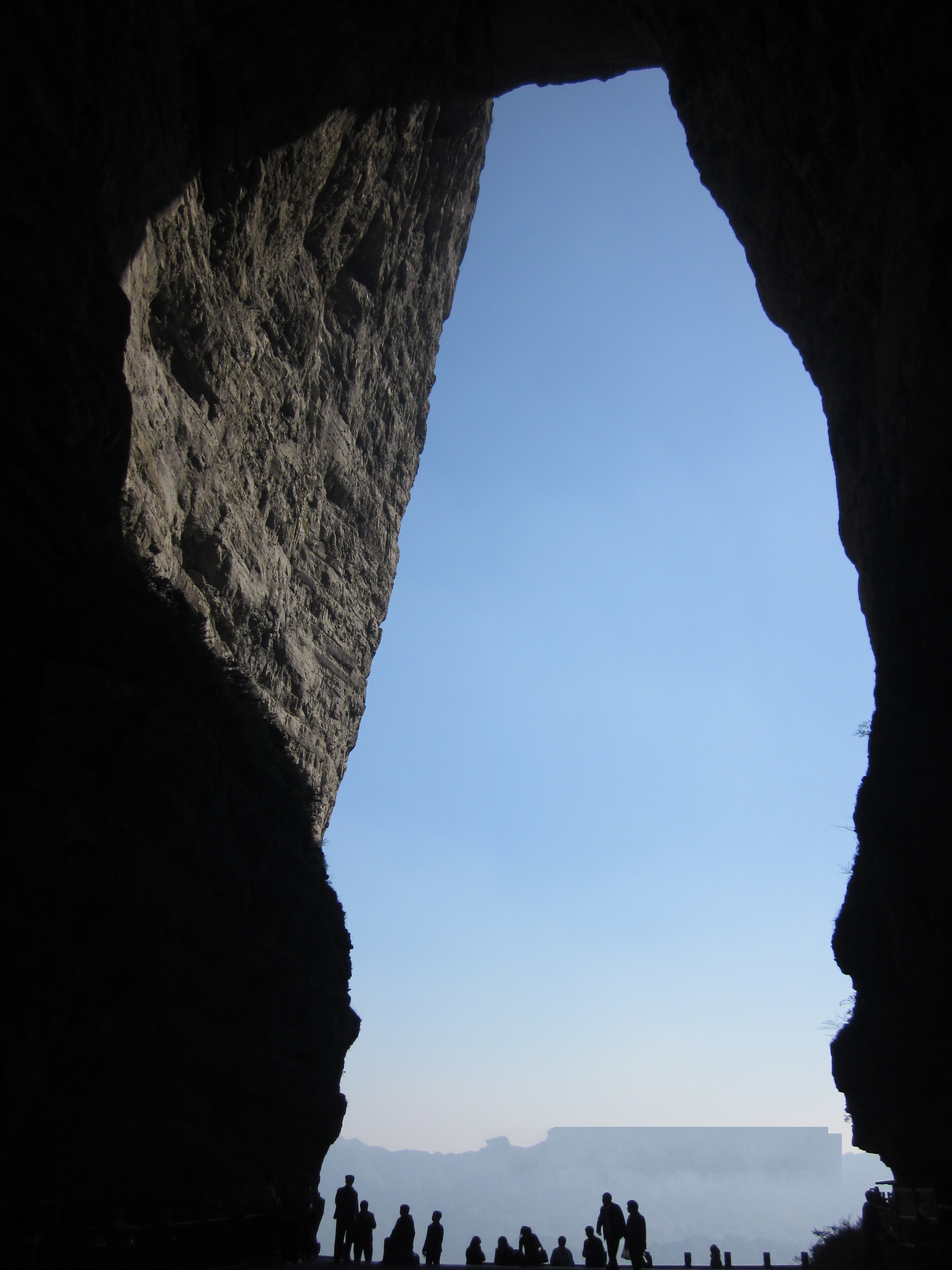 Tian Menshan Mountain,Zhangjiajie famous mountains, national forest park.This picture shows the Tianmen Cave.